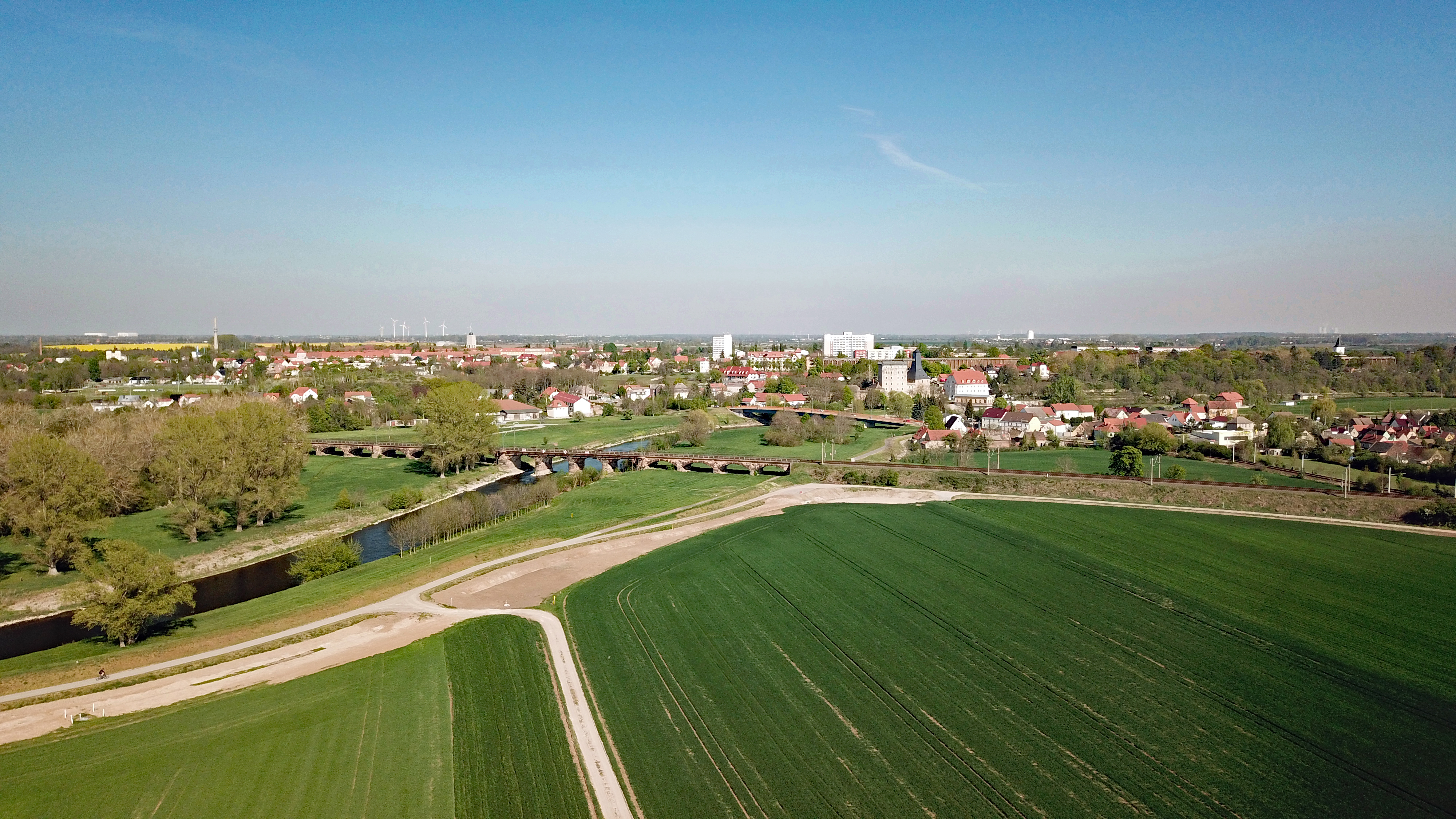 Bad Dürrenberg, Saxony-Anhalt, Germany